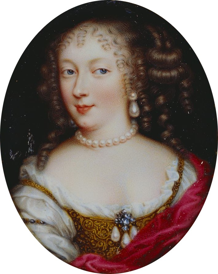 Portrait of Henrietta of England (1644-1670)